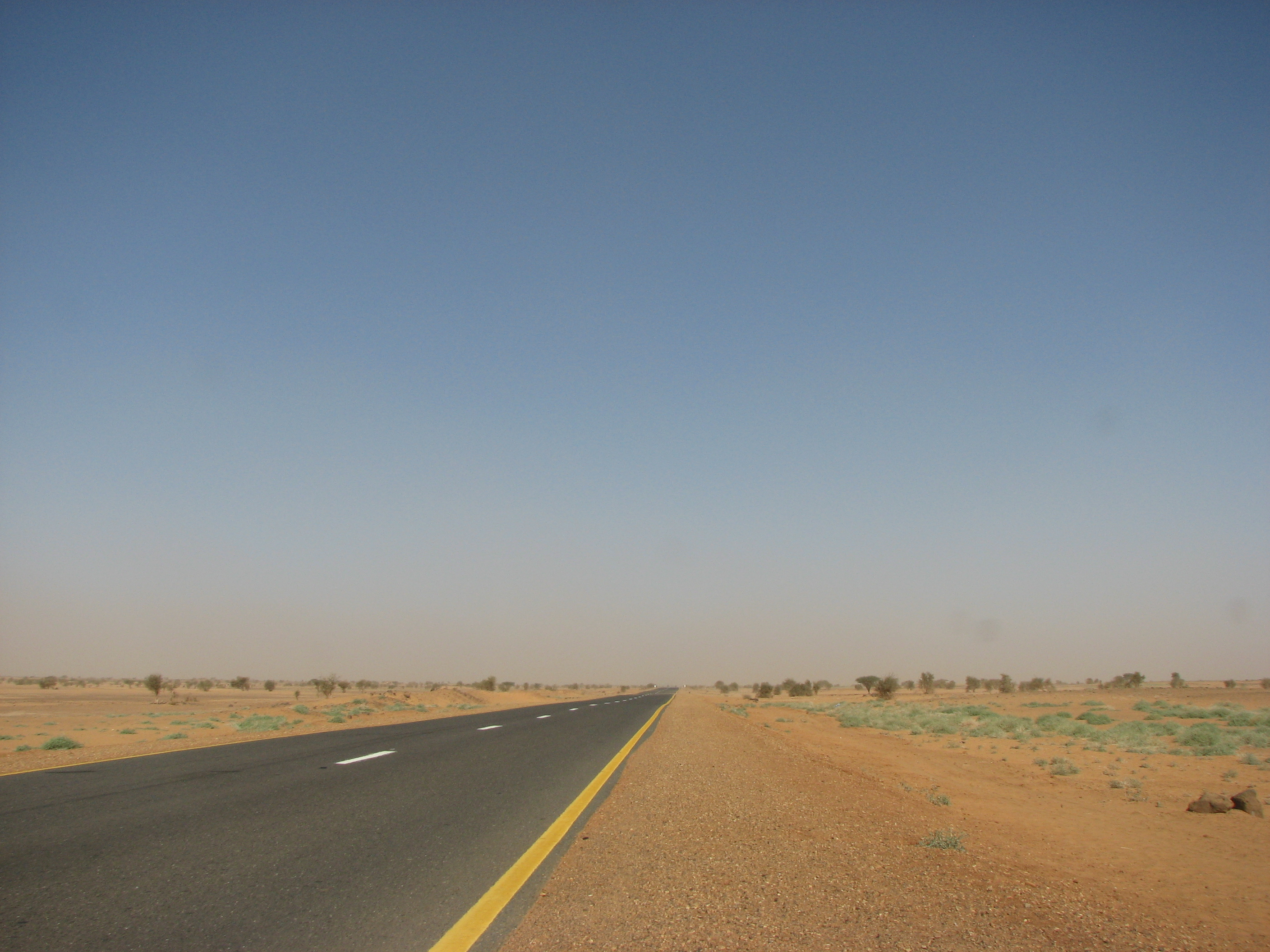 Alshemalia road